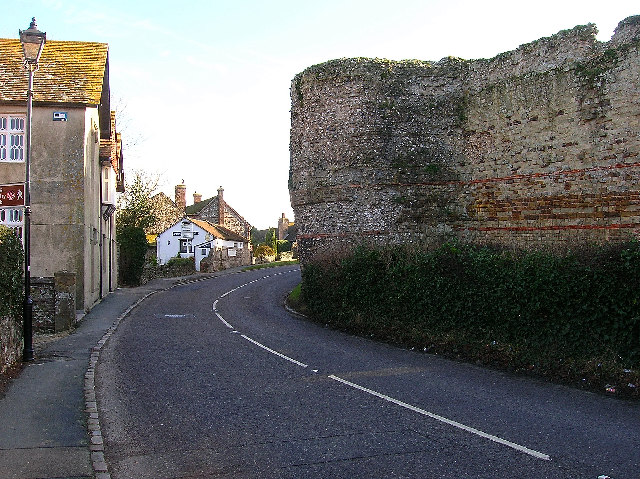 Castle Road, Pevensey. Now the B2191 until as recently as 2002 this was the main A259. This is the north eastern point of Pevensey Castle walls and gives an idea of just how much the castle imposes itself on the small village of Pevensey. This view looks east as Castle Road swings round and becomes Pevensey High Street.